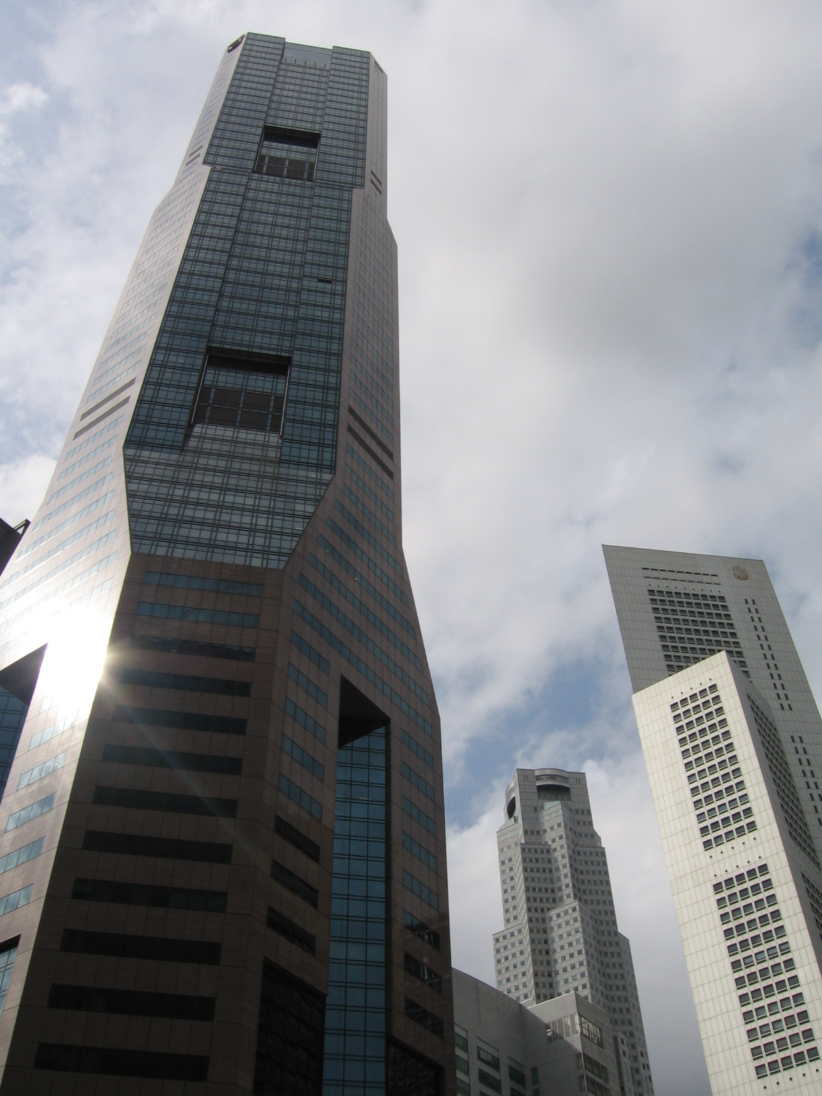 Skyscrapers at Raffles Place, Singapore. Taken by User:Sengkang of ENglish.Wikipedia in Jan 2006.